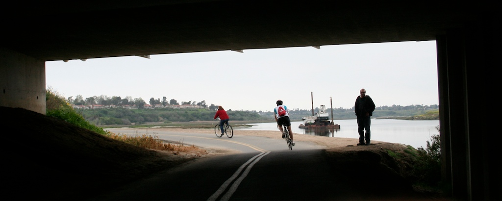 San Diego Bike Trail entrance (under Jamboree bridge) to Newport Back Bay — Newport Beach, Orange County, California